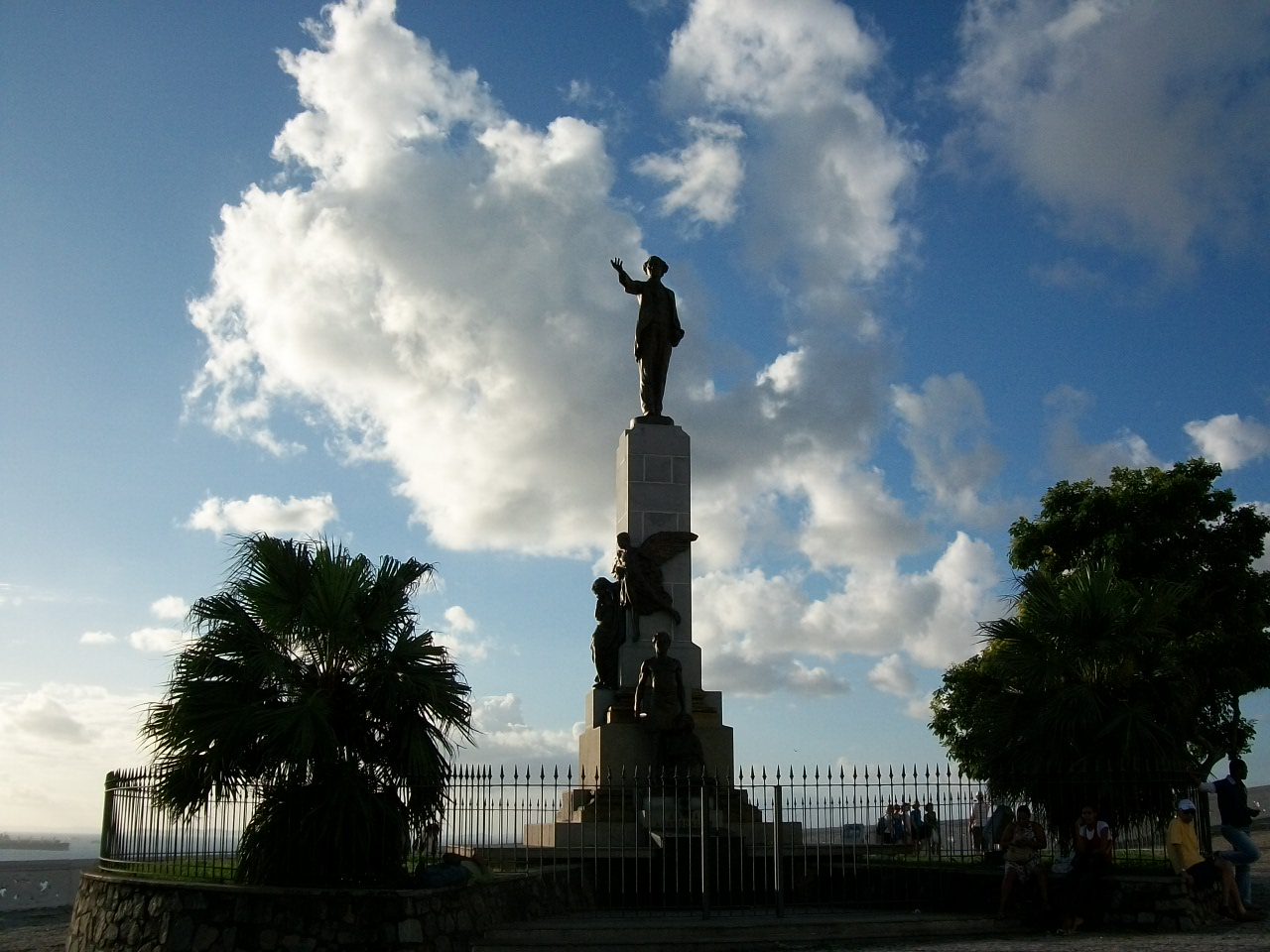 Castro Alves square, in Salvador (Bahia), with poet Castro Alves' monument.